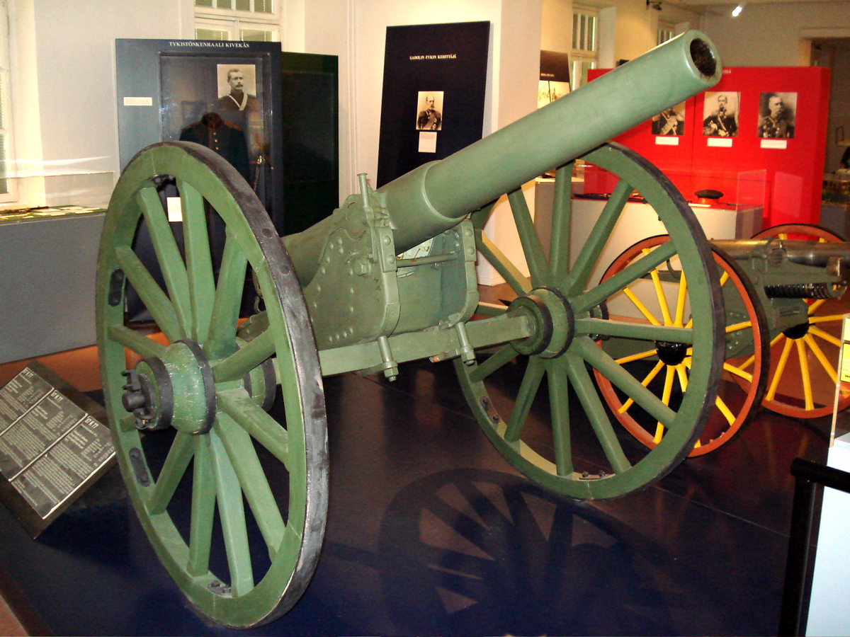 Russian Model 1877 87 mm field gun, barrel manufactured by Krupp, displayed in Hämeenlinna Artillery Museum. Photo taken on June 18, 2006. Source: Photo by me, User:Balcer.